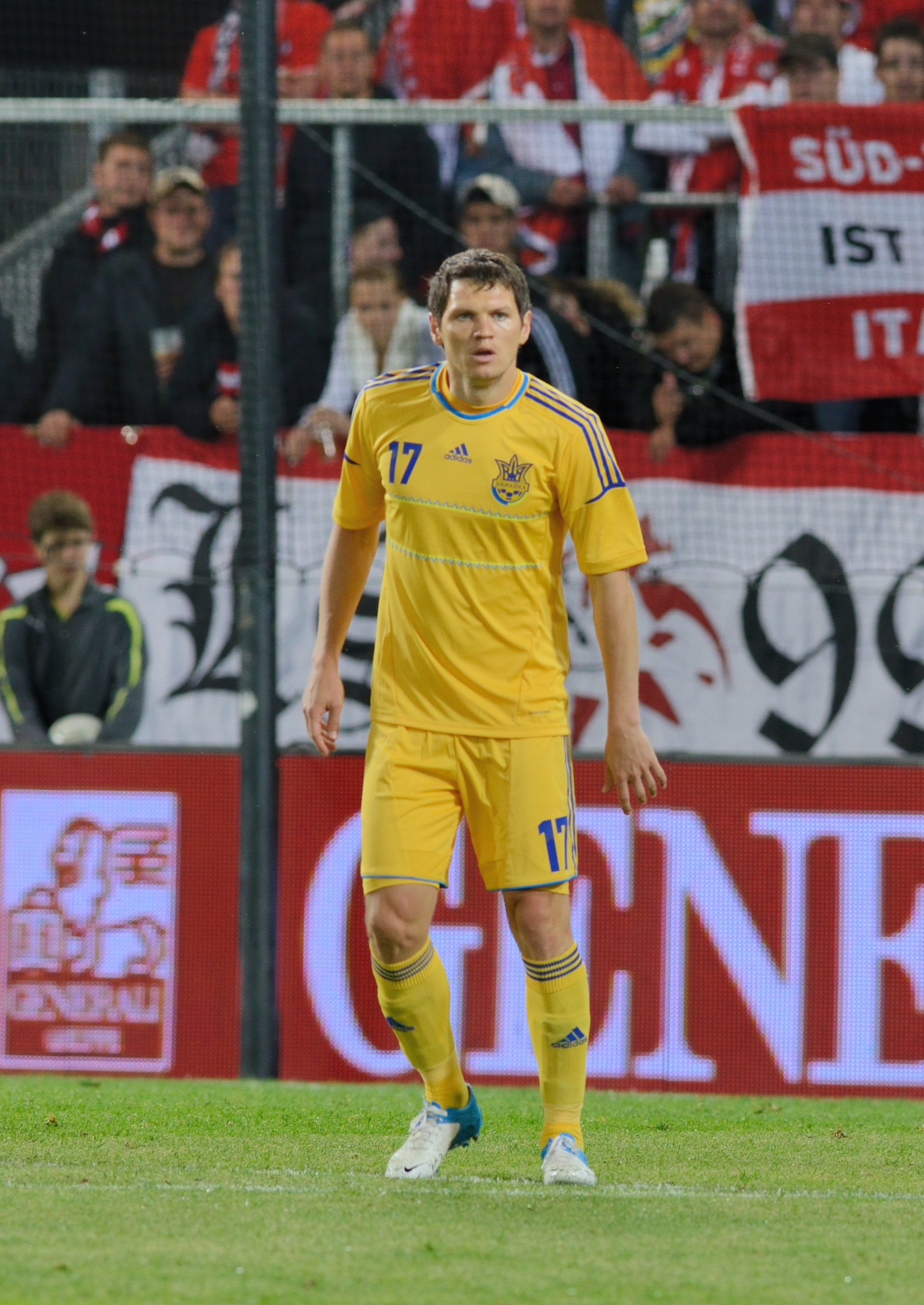 Exhibition game Austria vs. Ukraine at 1st. June 2012, here: Taras Mychalyk